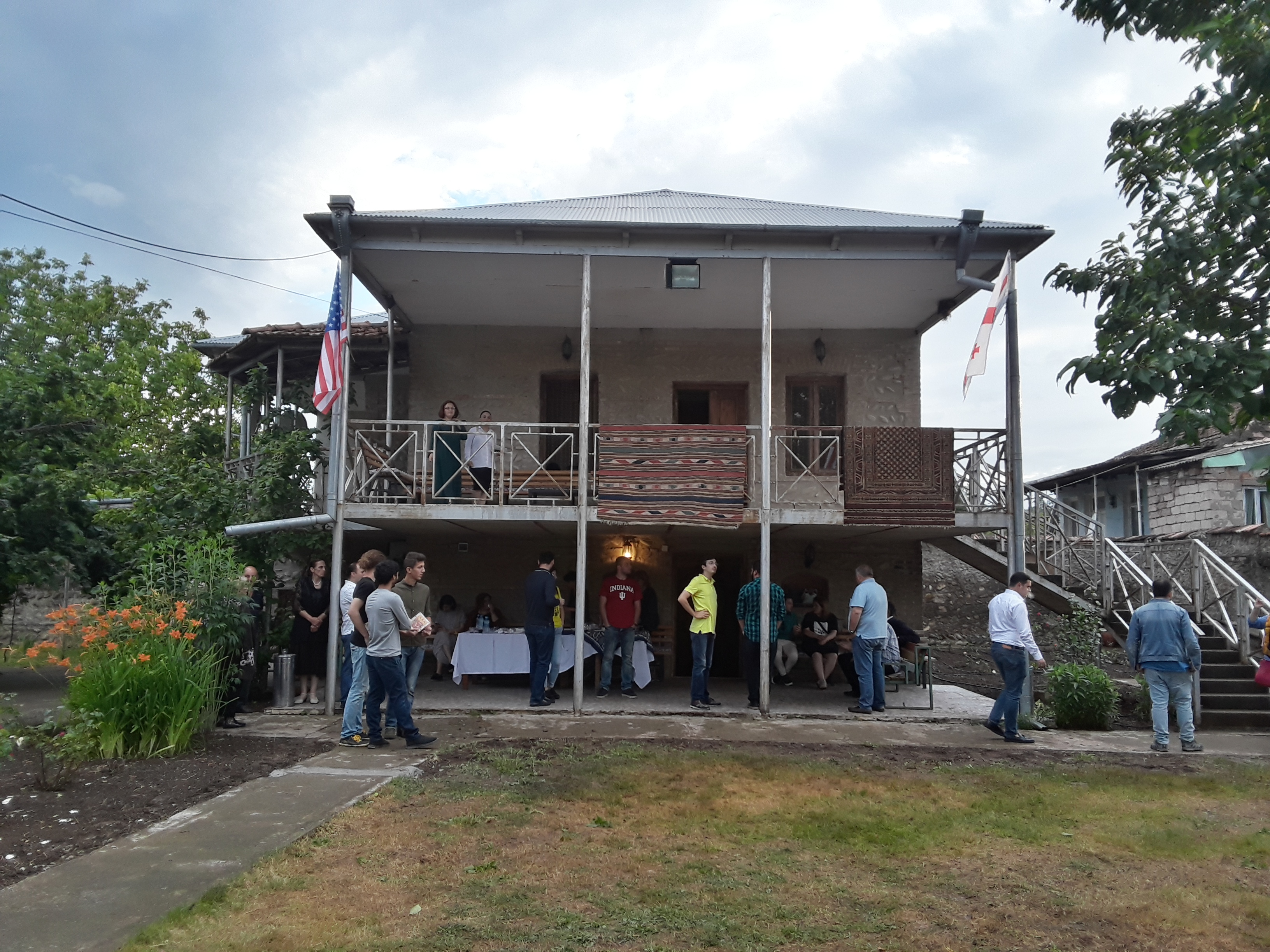 Karbelashvili brothers house-museum in Kvemo Chala